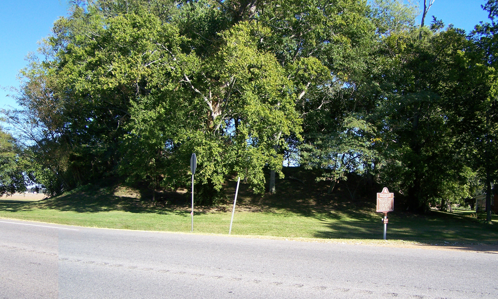 A photo of the Coles Creek culture Frogmore Mound in Concordia Parish, Louisiana.